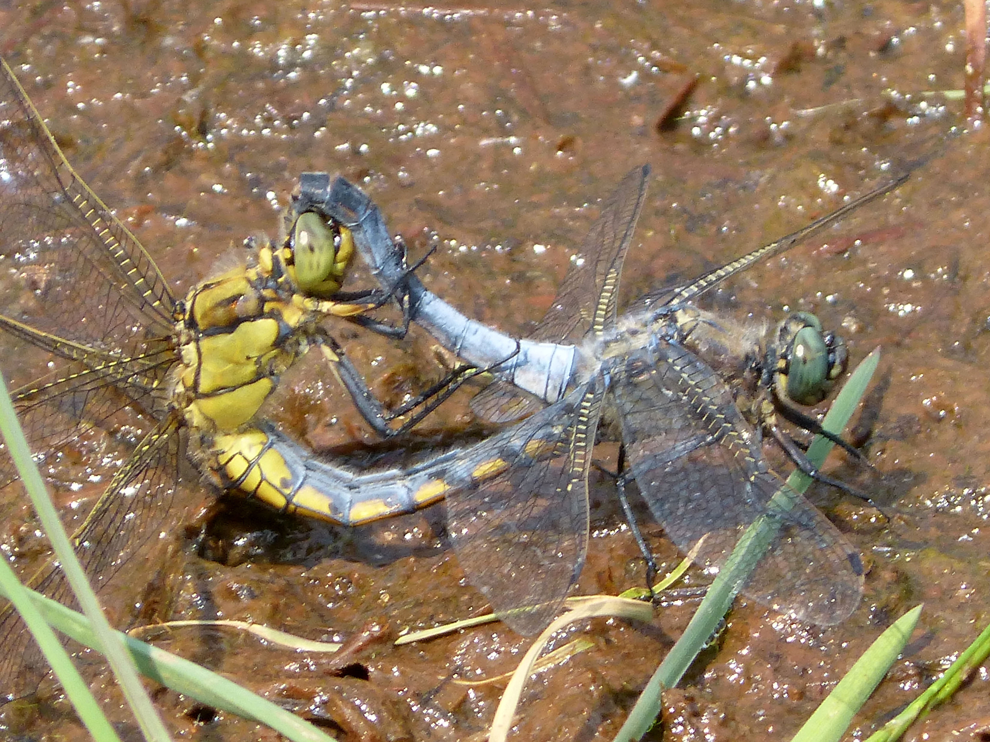 Black-tailed Skimmers mating. Orthetrum cancellatum.